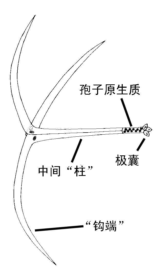 脑粘体虫在三角孢子虫期的结构示意图 convert from Image:Actinomyxon.png by Anilocra.